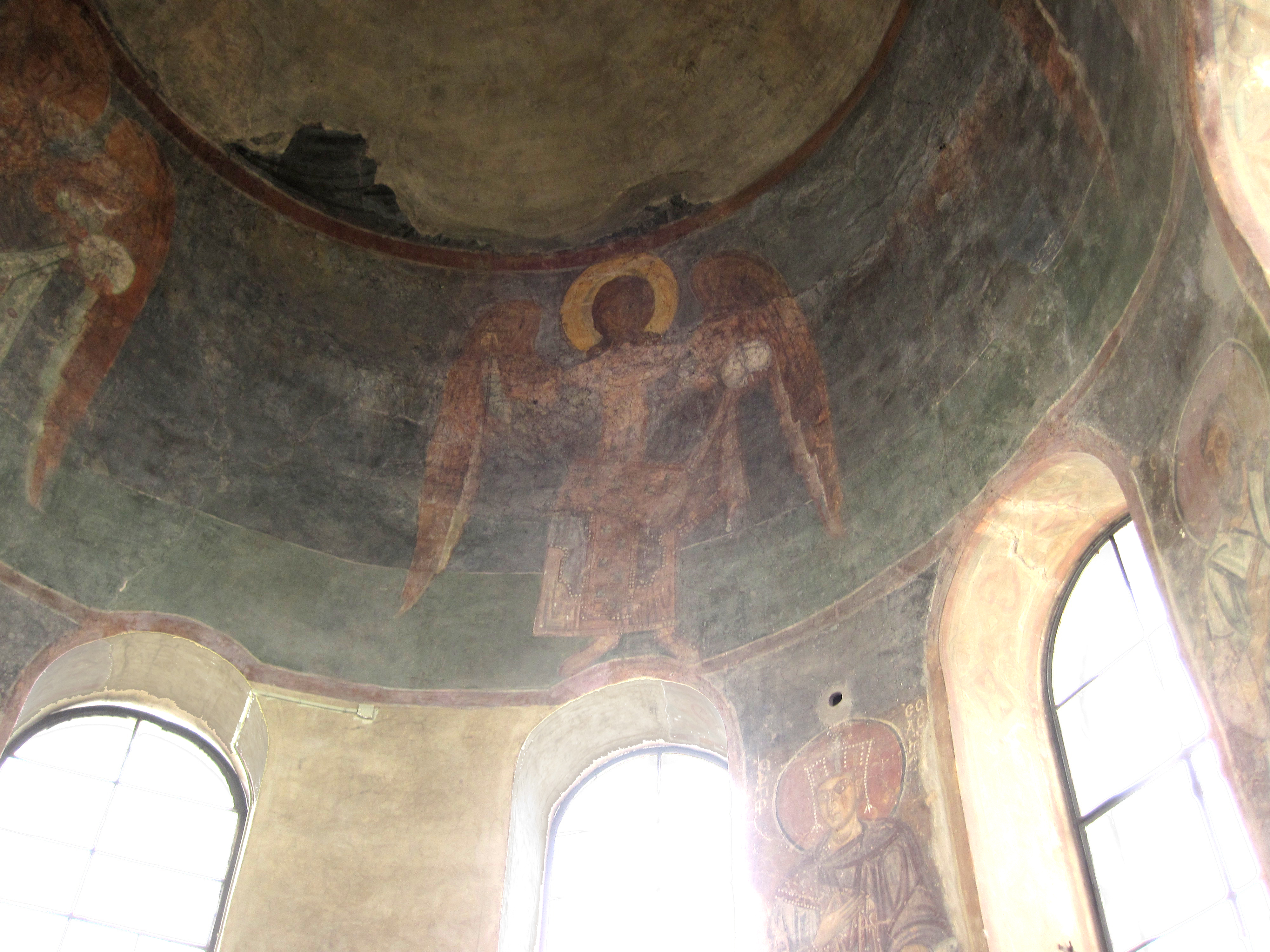 Frescos in st. Sophien cathedral in Veliky Novgorod, Russia